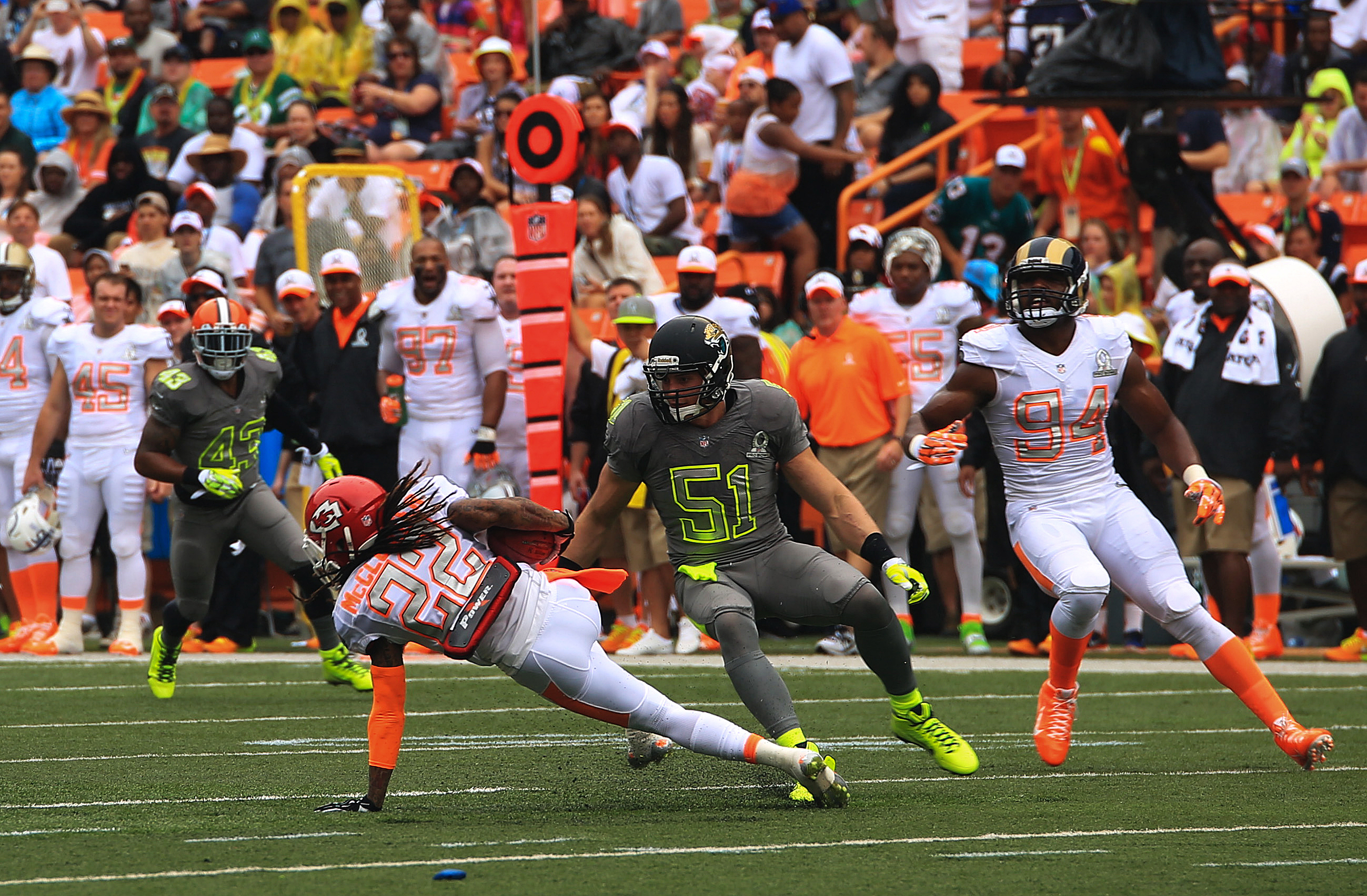 Dexter McCluster (second from left), punt returner for the Kansas City Chiefs, evades a tackle by Paul Posluszny, inside linebacker for the Jacksonville Jaguars, during the 2014 National Football League Pro Bowl at the Aloha Stadium, Hawaii, Jan. 26, 2014.